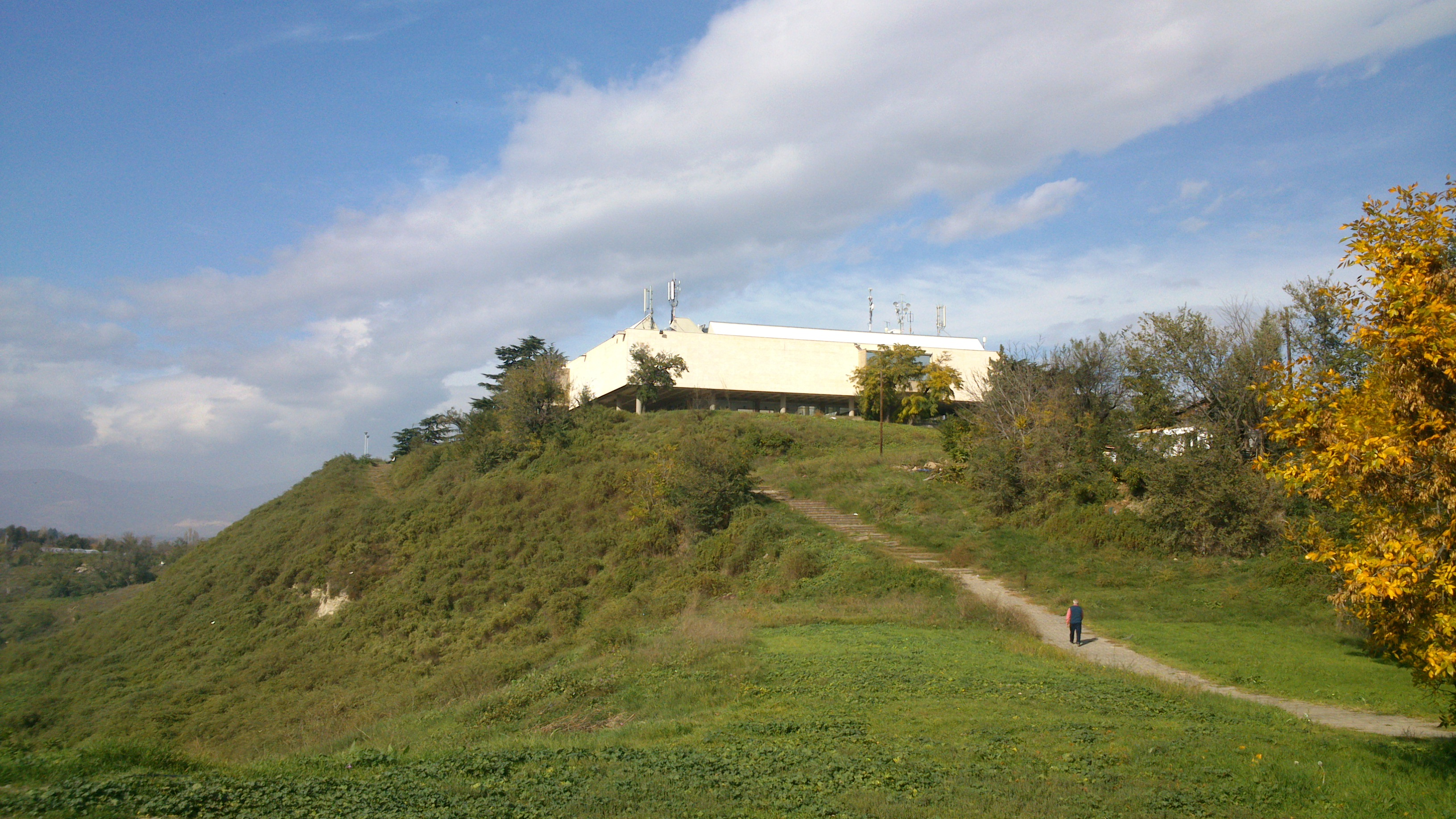 The Museum of Contemporary Art in Skopje, Macedonia Ова е фотографија на споменик на културата во Македонија со типски код: B08This is a a photo of a cultural monument in North Macedonia with type id: B08